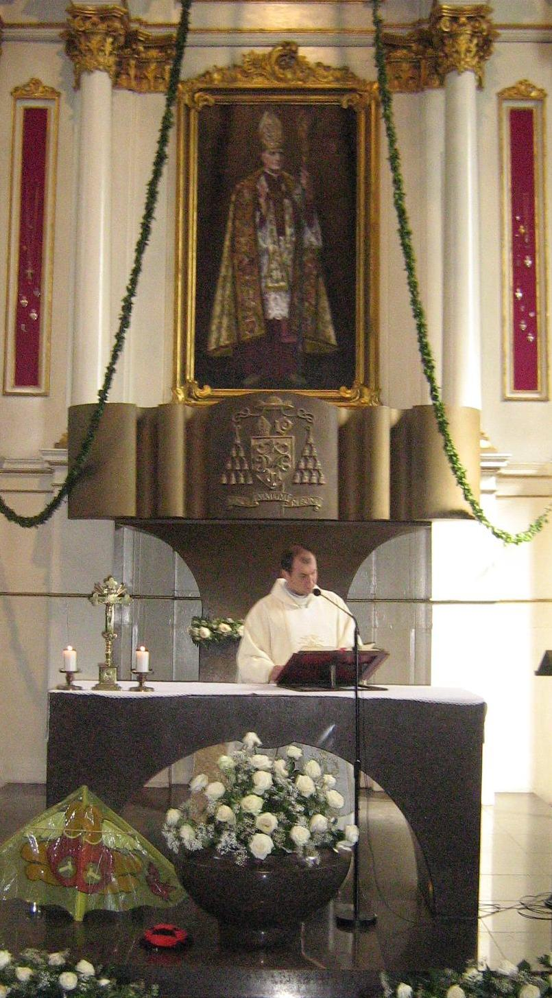 Jurgis Matulaitis, Reliquary of beatified bishop from Lithuania